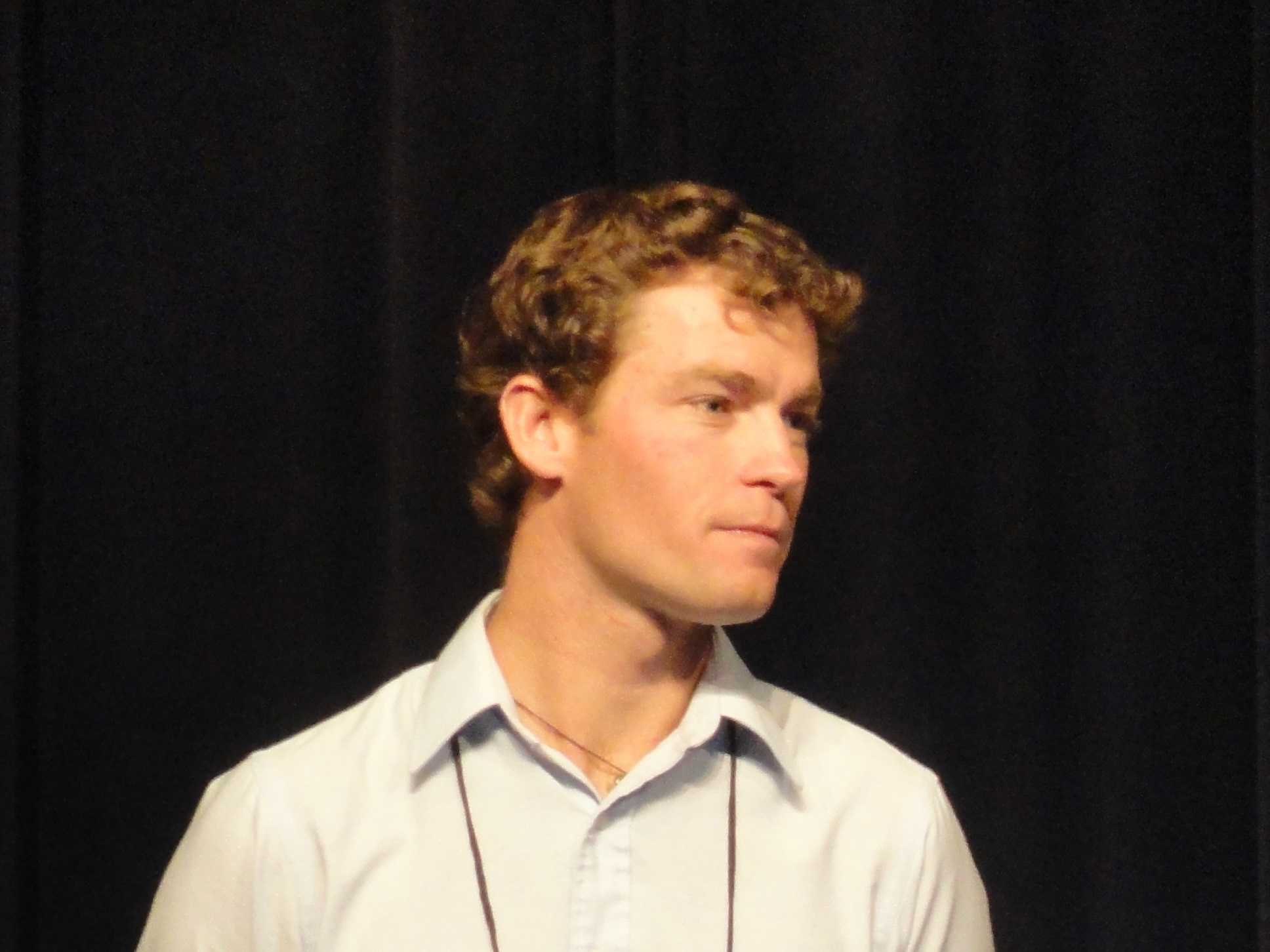 Rex Pemberton at the Oracle ThinkQuest Live 2011 in San Francisco, United States.